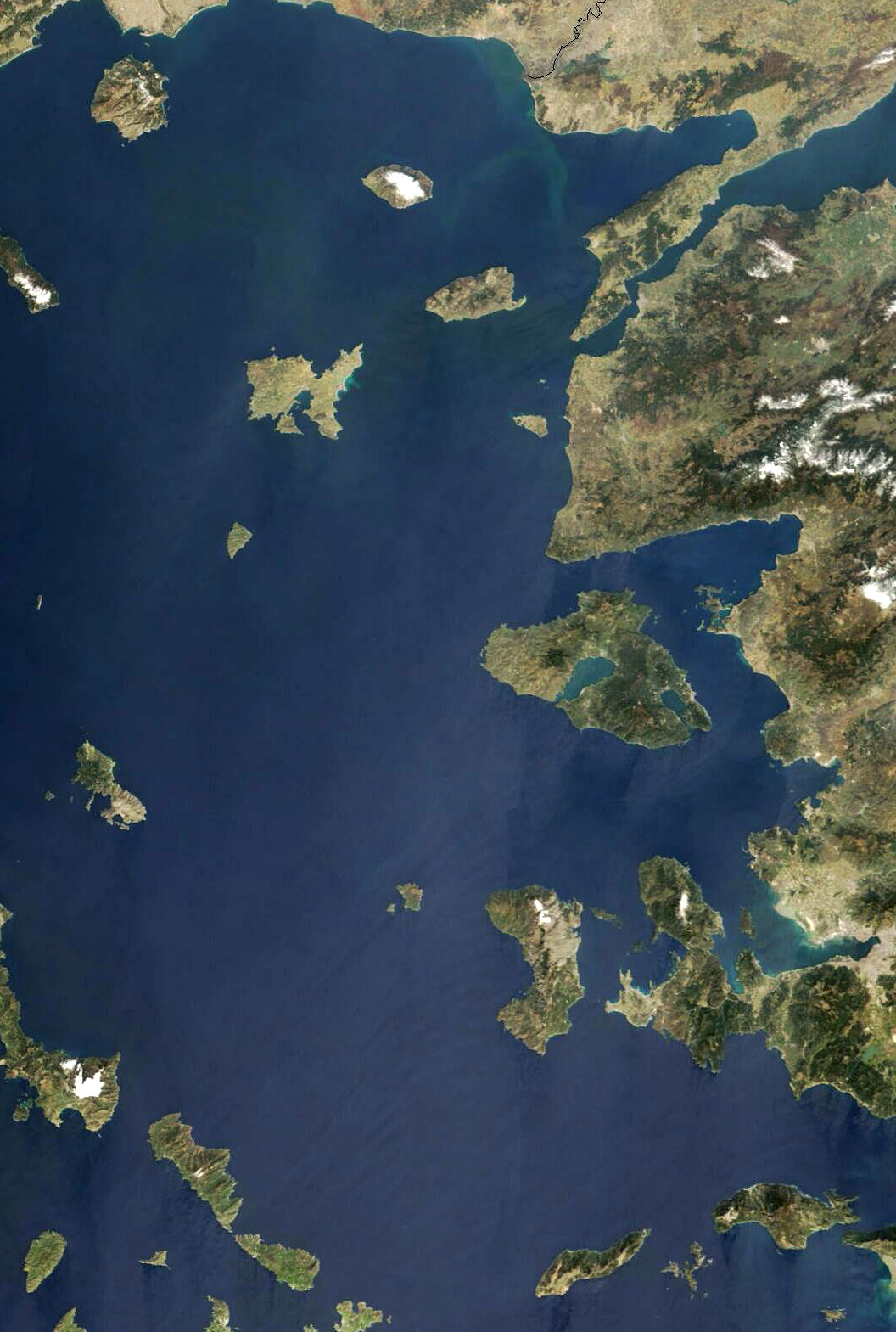 Satellite image of Northern Aegean Islands in March 2003. Cropped from File:Satellite_image_of_Greece_in_March_2003.jpg